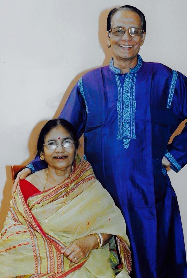 Pandit Ramkanai Das and his wife Subarna Das in New York, NY.